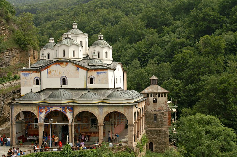 The Monastery of Sveti Joakim Osogovski, near Kriva Palanka in the Republic of Macedonia